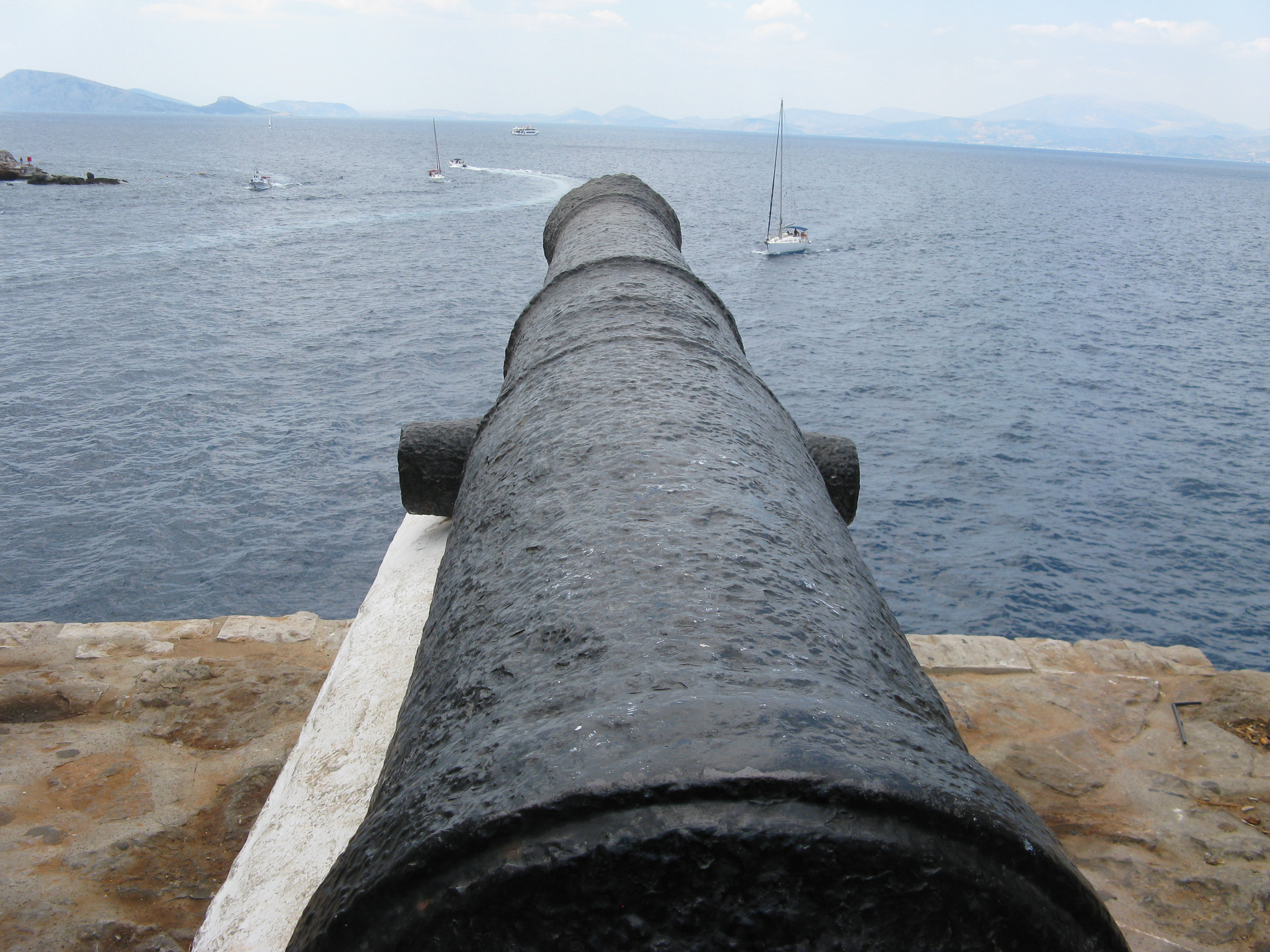 A cannon at Hydra island, Greece